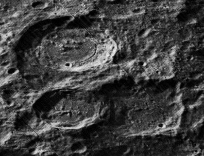 Oblique view of Karpinskiy (upper left), Ricco (lower left), and Milankovic (lower right) craters, on the far side of the moon, facing southwest.